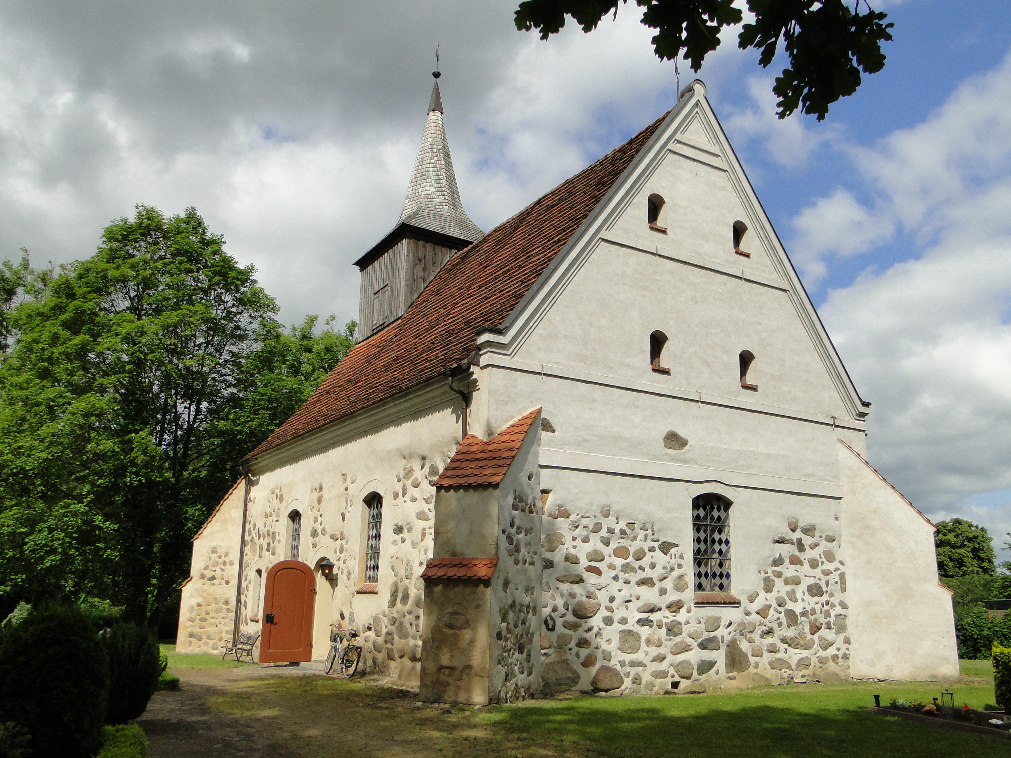 Church in Bülow, district Ludwigslust-Parchim, Mecklenburg-Vorpommern, Germany